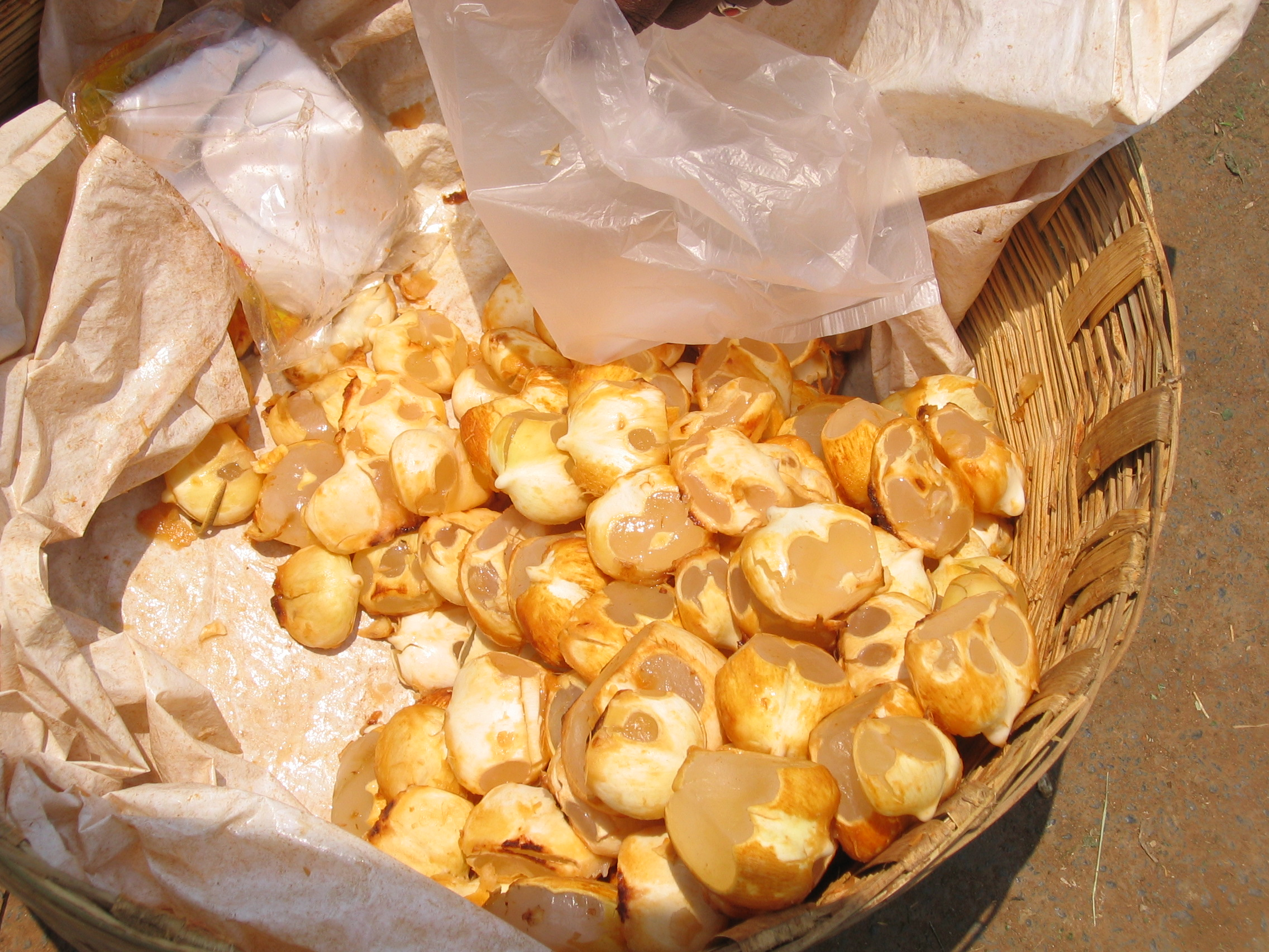 The fruits of Palmyra Palm tree (locally called Thaati Munjelu) sold in a market at Guntur, India. The main coconut style fruit is cut open when it is raw to get these small fruits, which have juice/water inside each of them. Also in Tamil it is called as nungu. This tree is called "Tal" in Bengali.